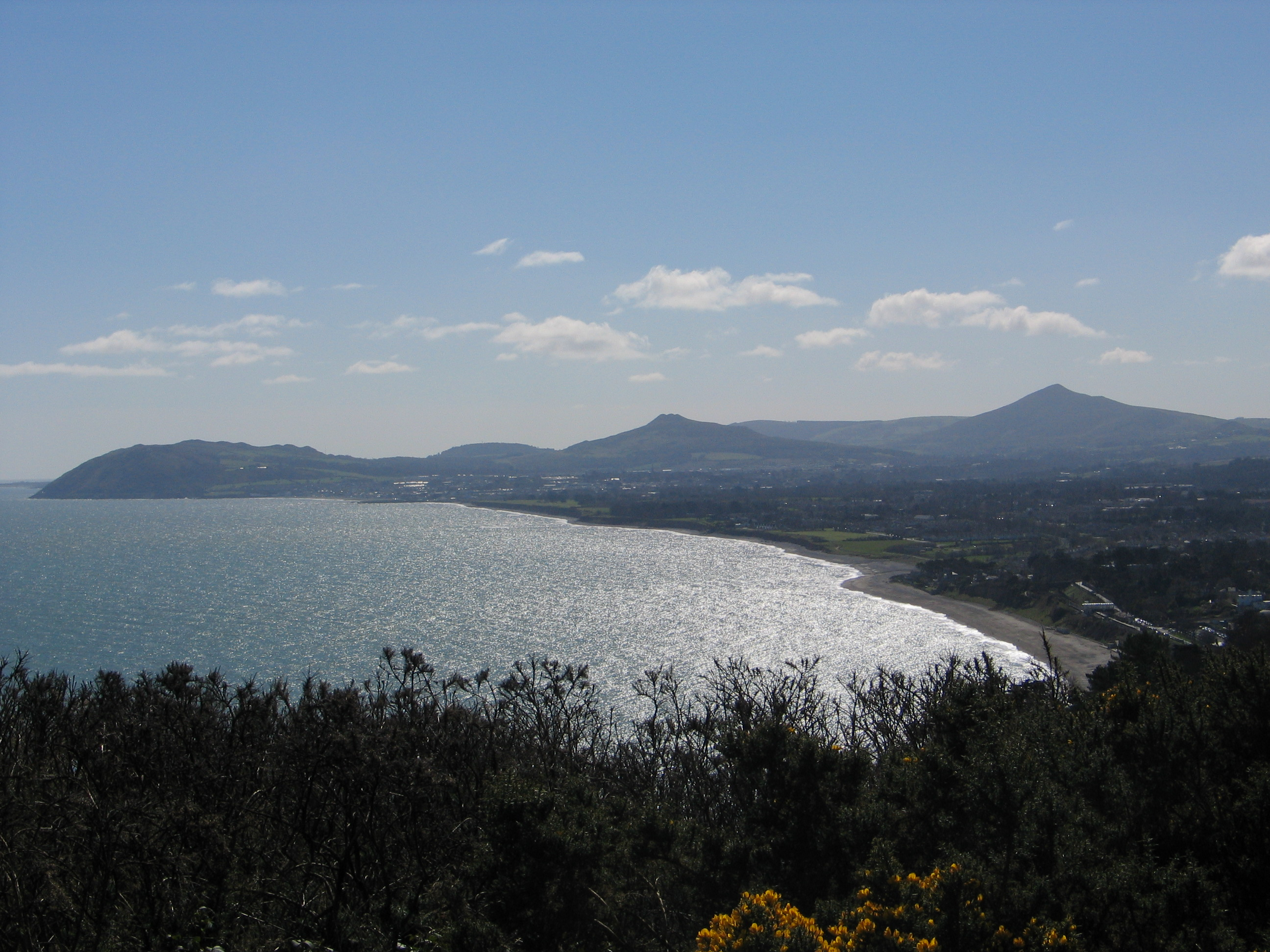 Killiney Bay, Dublin, Ireland